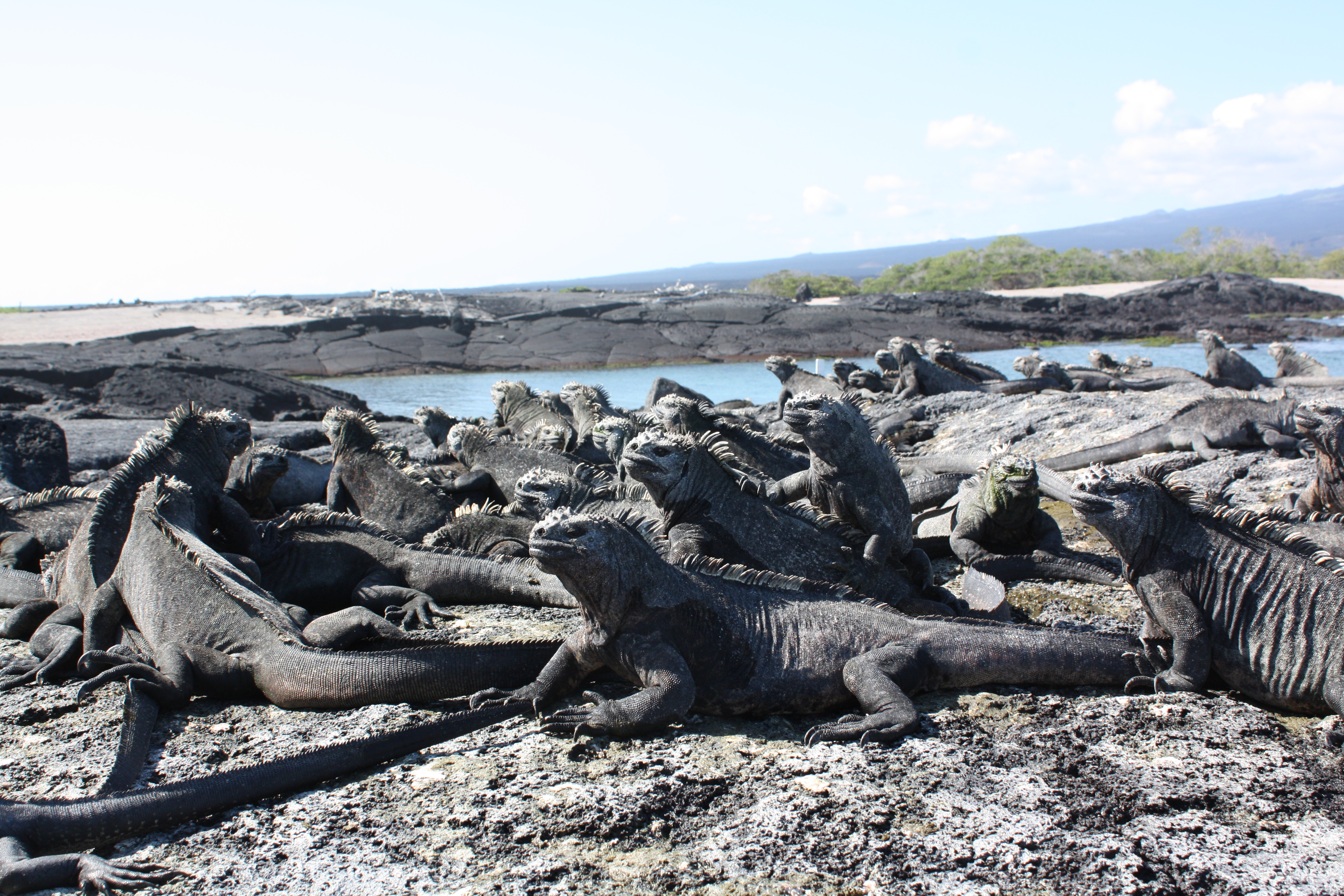 Marine Iguanas at Fernandina, Galapagos Islands